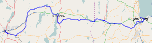 Map of old railway line Borås-Ulricehamn-Jönköping